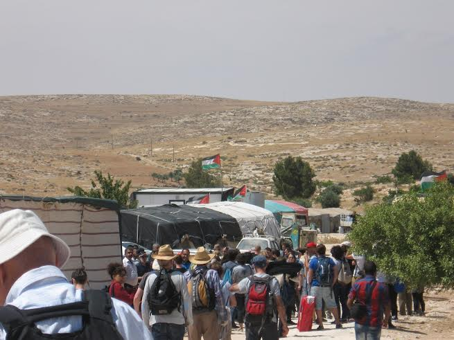 "Combatants for Peace" tour to Susya, 2016